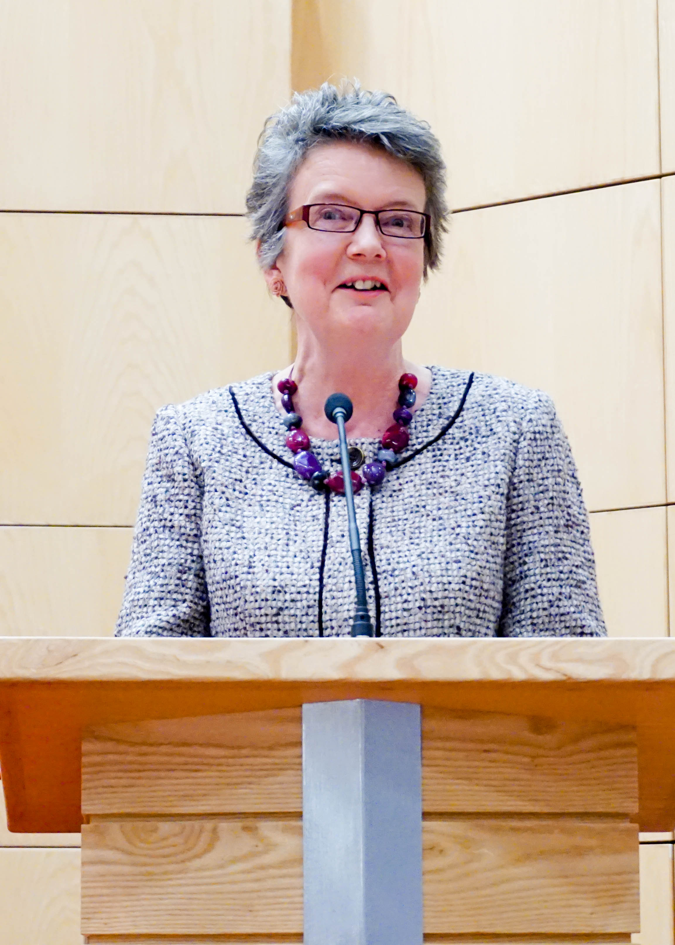 Contemporary Christianity’s annual Catherwood Lecture in Public Theology took place on Thursday 16 April at 8 pm at the Agape Centre, 238 Lisburn Road in Belfast. Dr Jenny Taylor, a cultural analyst, journalist, author and founder of Lapido Media, a consultancy specialising in religious literacy in world affairs, spoke on ‘When Words Fail: Religious Literacy and Post-Multicultural Possibilities.